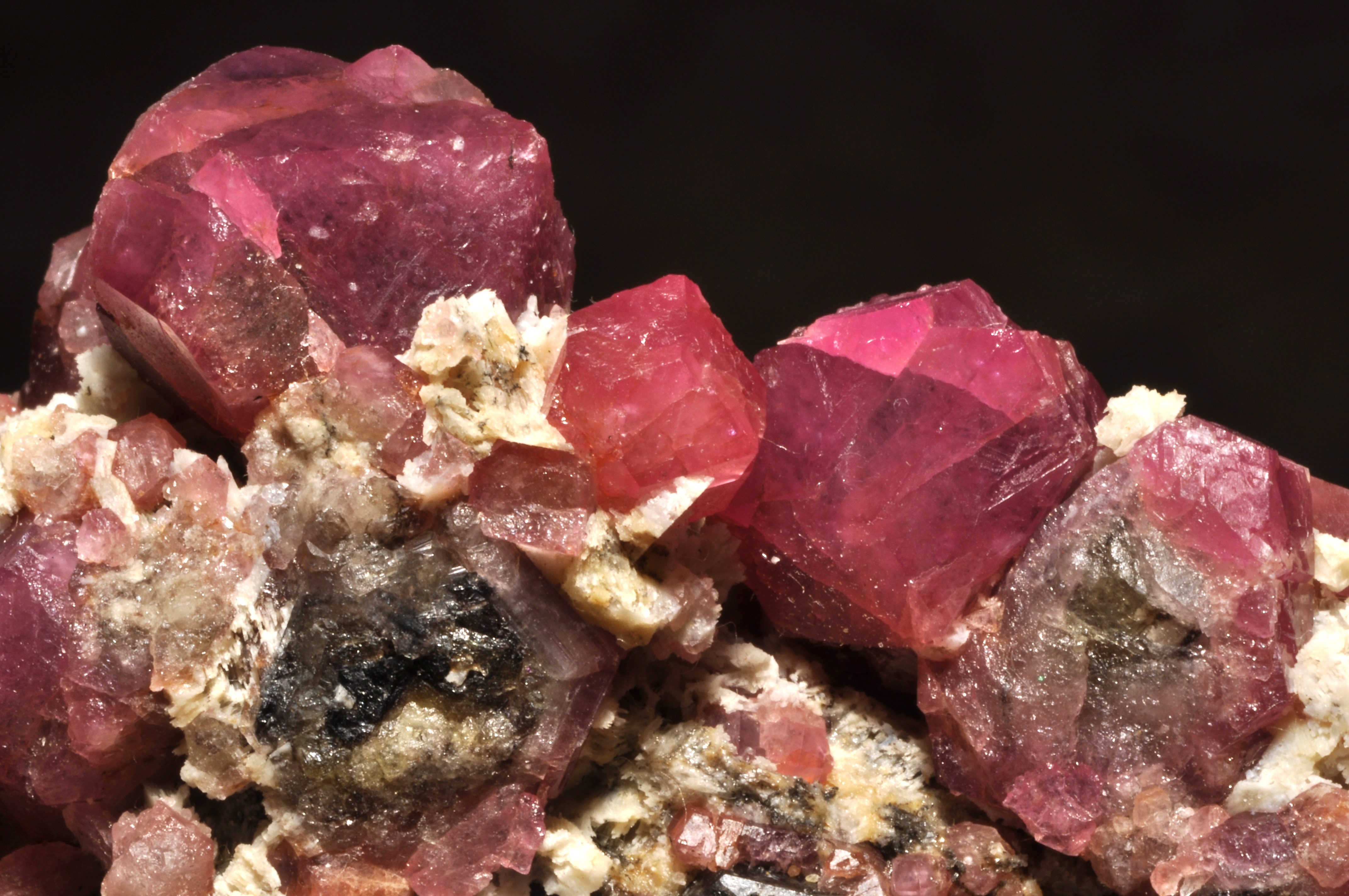 garnet var. grossular : Sierra de Cruces, Mun. de Sierra Mojada, Coahuila, Mexico